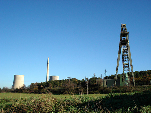 Centrale Thermique de Provence and the closed Puits Z, Peter Atkinson, 2006.